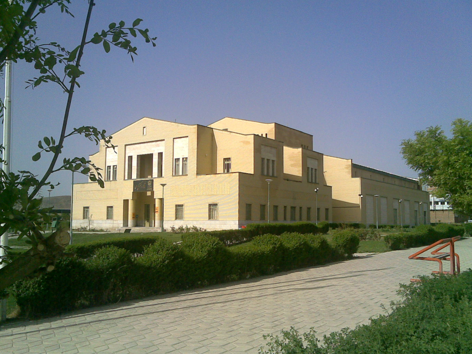 this is a picture of Shahid Chamran Hall of Urmia University, taken By Farzad Golghasemi